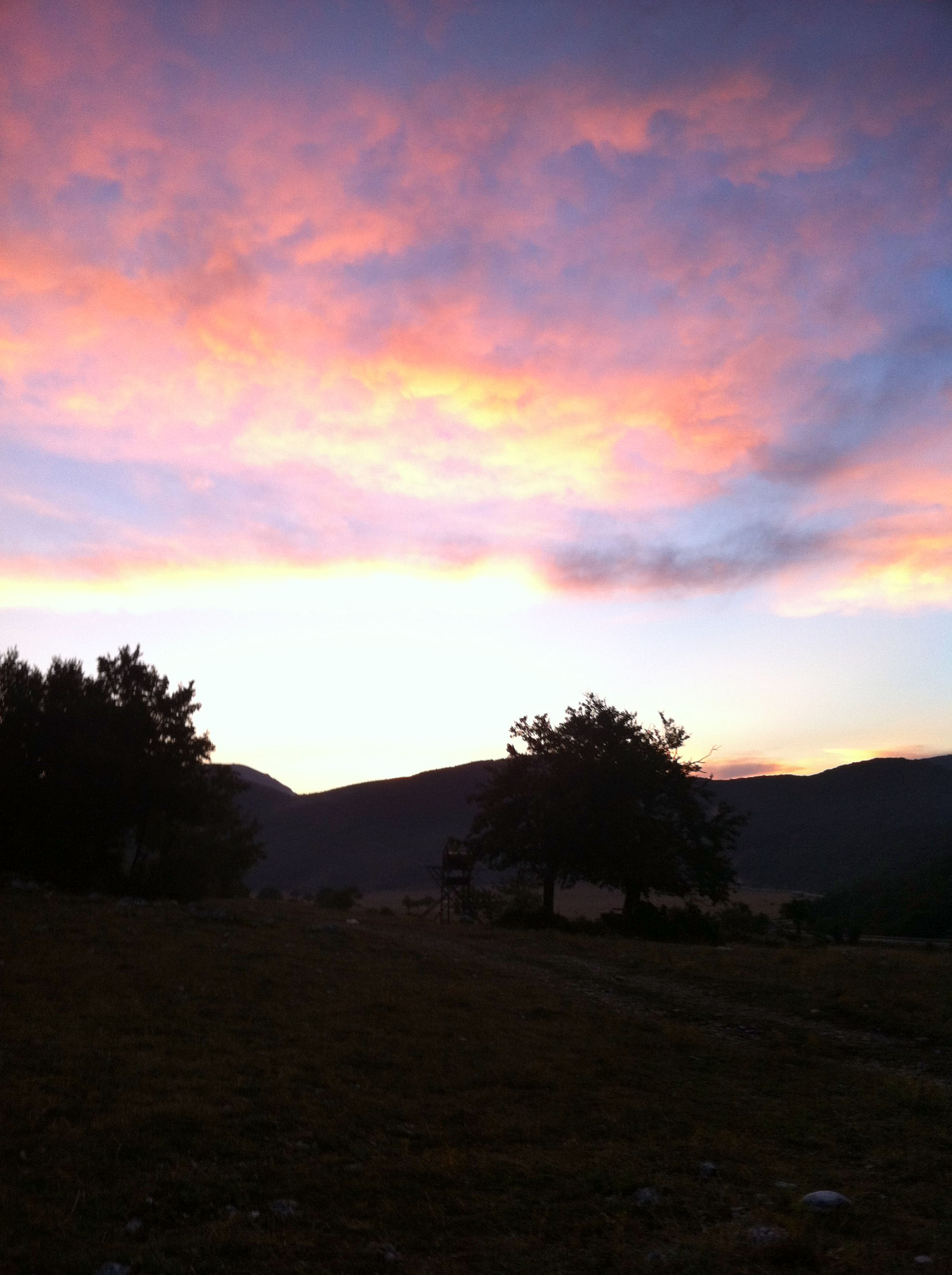 Sunset in Secinaro, Sirente's meadows